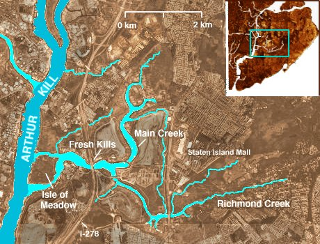 Fresh Kills, Staten Island © 2004 Matthew Trump